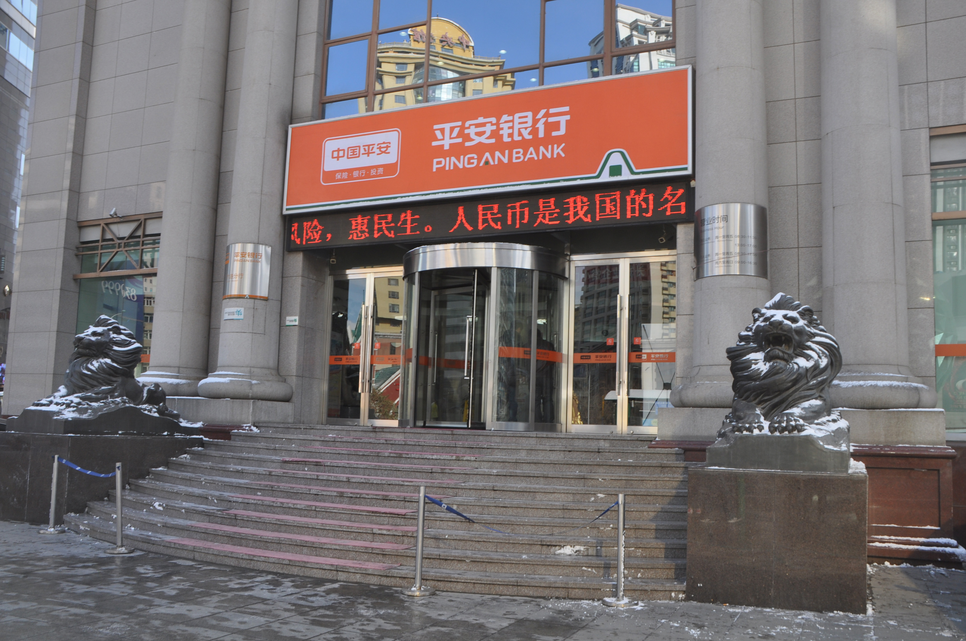 Ping An Bank, China - Dalian Branch in December 2013